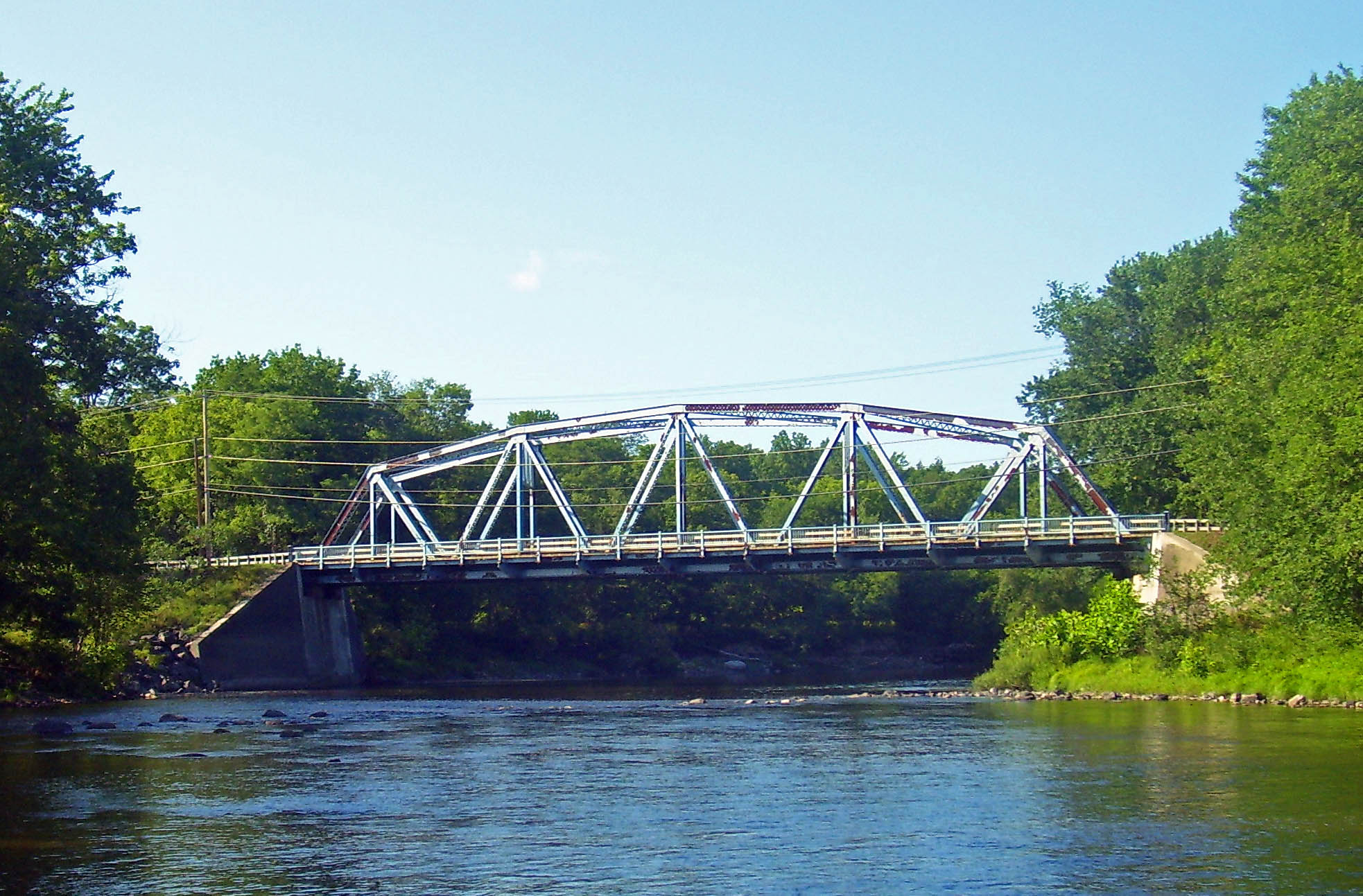 Tuthilltown Bridge over the Wallkill River near Gardiner, NY, USA